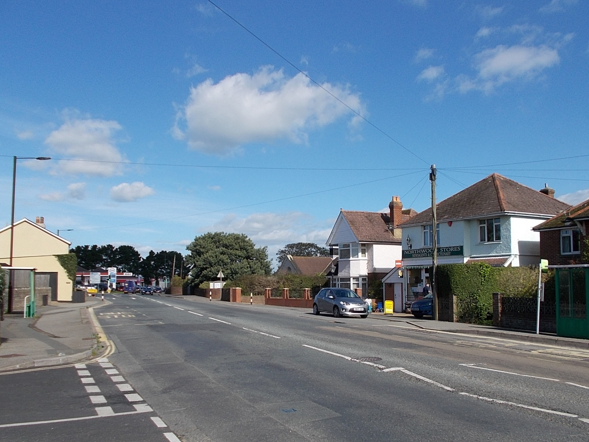 Northwood village, Isle of Wight, UK